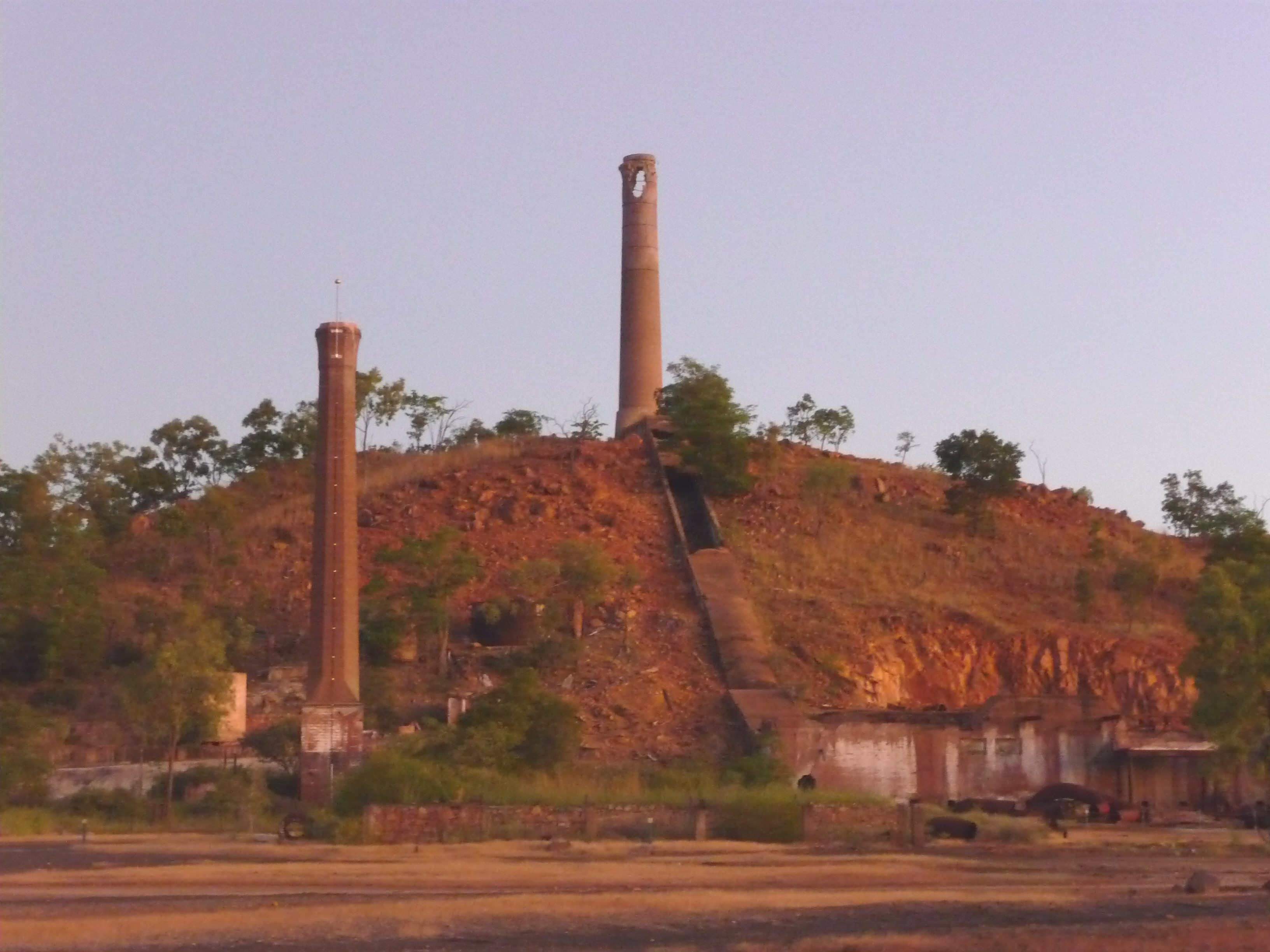 Chillagoe Smelters looking south, the powerhouse chimney in the fore ground ant high on the hill is the main smelter flue and chimney.